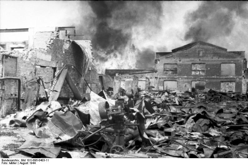 Warsaw Uprising